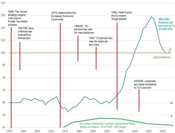 Recreation of the Tax Justice Network's graphic on Ireland's Corporate Tax Regime